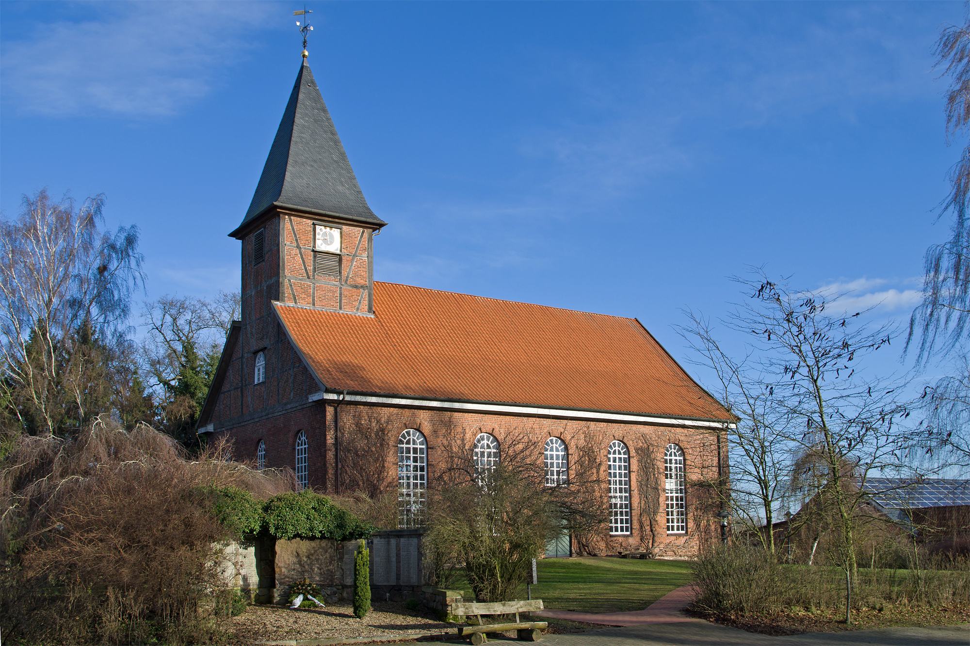 Church of the small village Langendorf (district Lüchow-Dannenberg, northern Germany).